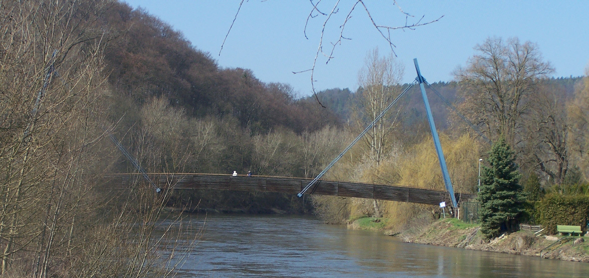 The Ebenshäuser Steg over river Werra.